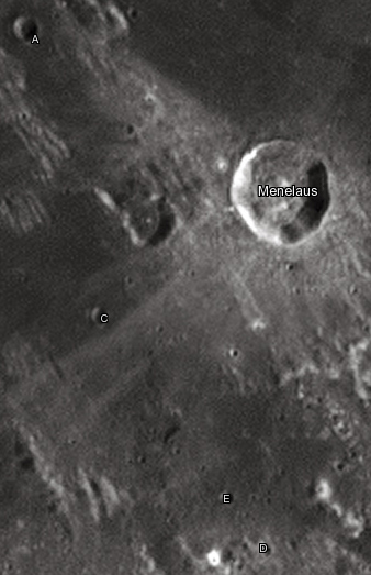 Menelaus lunar crater as seen from Earth with satellite craters labeled